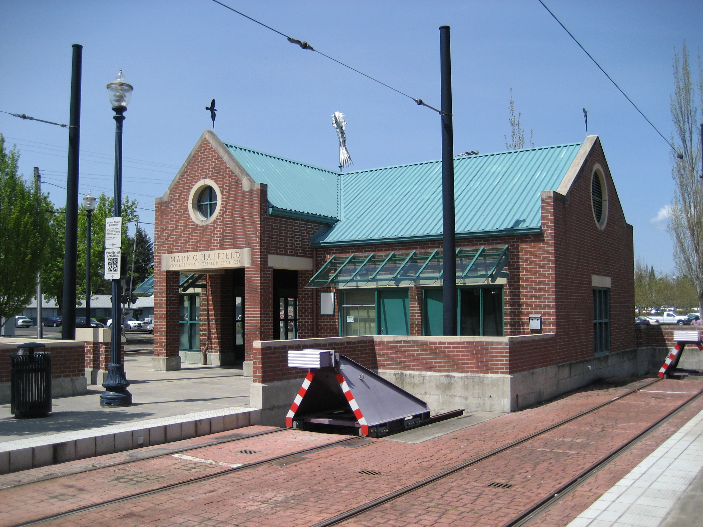 Hatfield Government Center Station in Hillsboro, Oregon